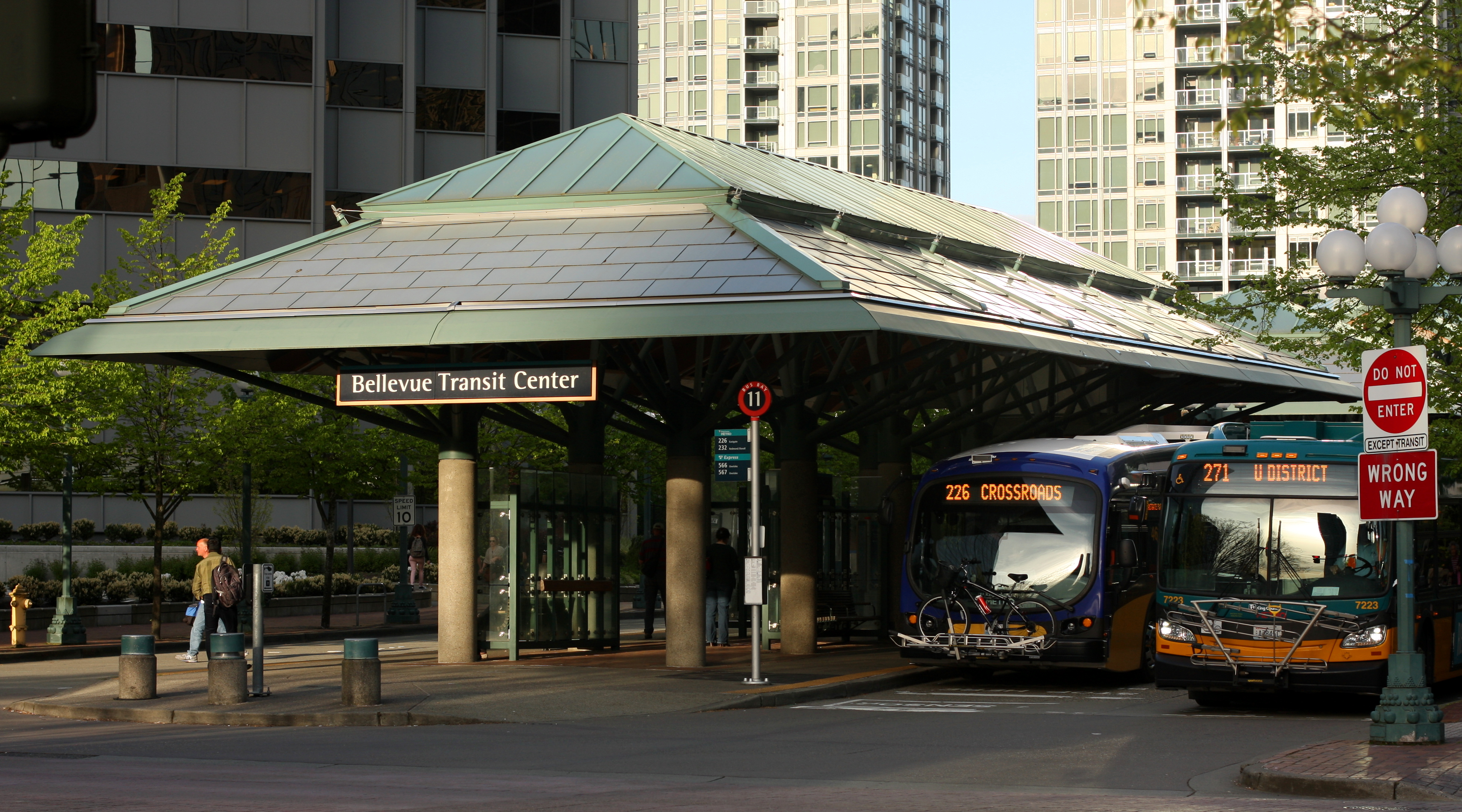 View of the west end of the Bellevue Transit Center from 108 Ave NE. Two King County Metro buses visible on the right.